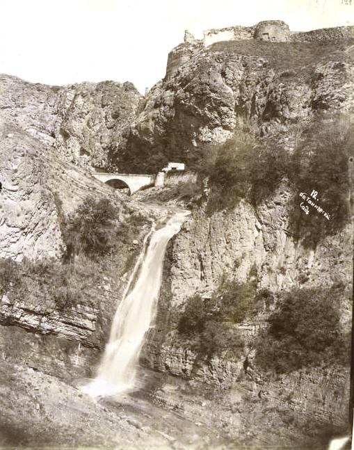 Tiflis: Waterfall on Western side of Botanical Garden.